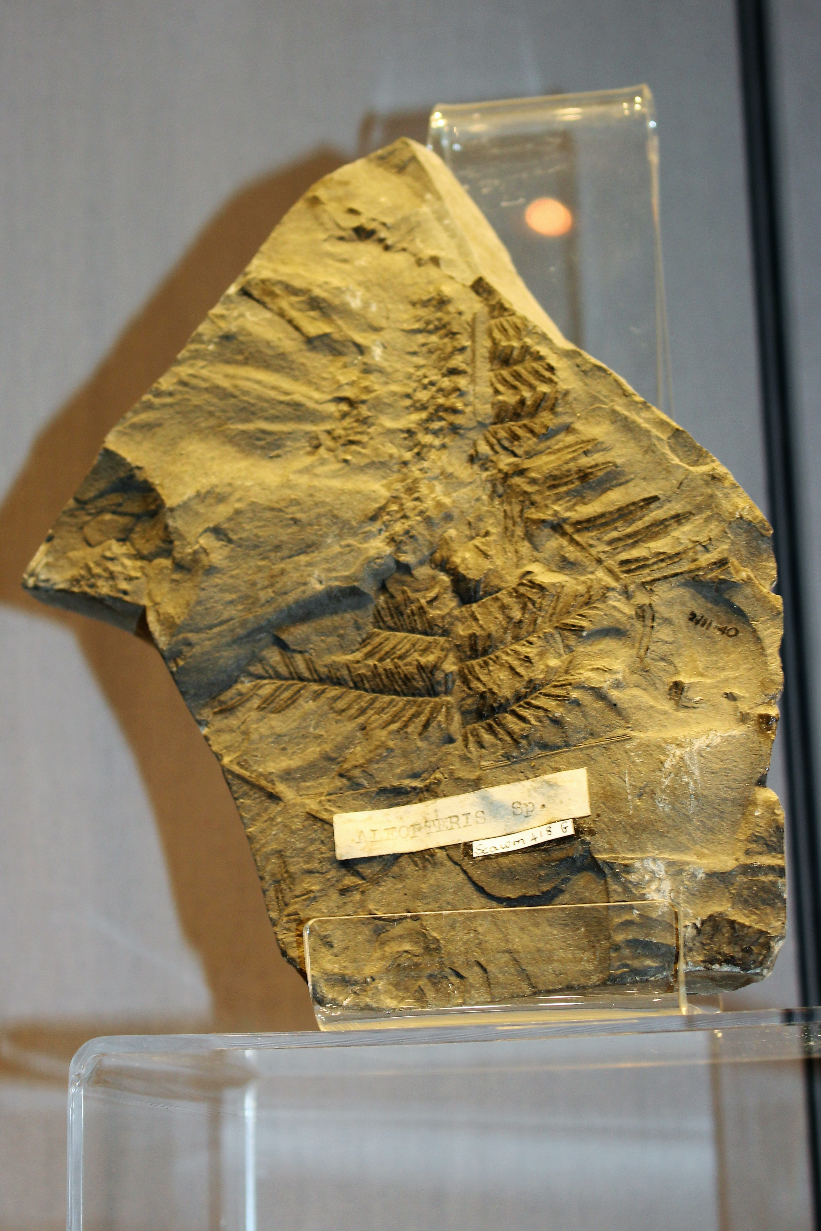 Unidentified Pteridospermatophyta sp. from Carboniferous, in the Rotunda Museum, Scarborough, England.